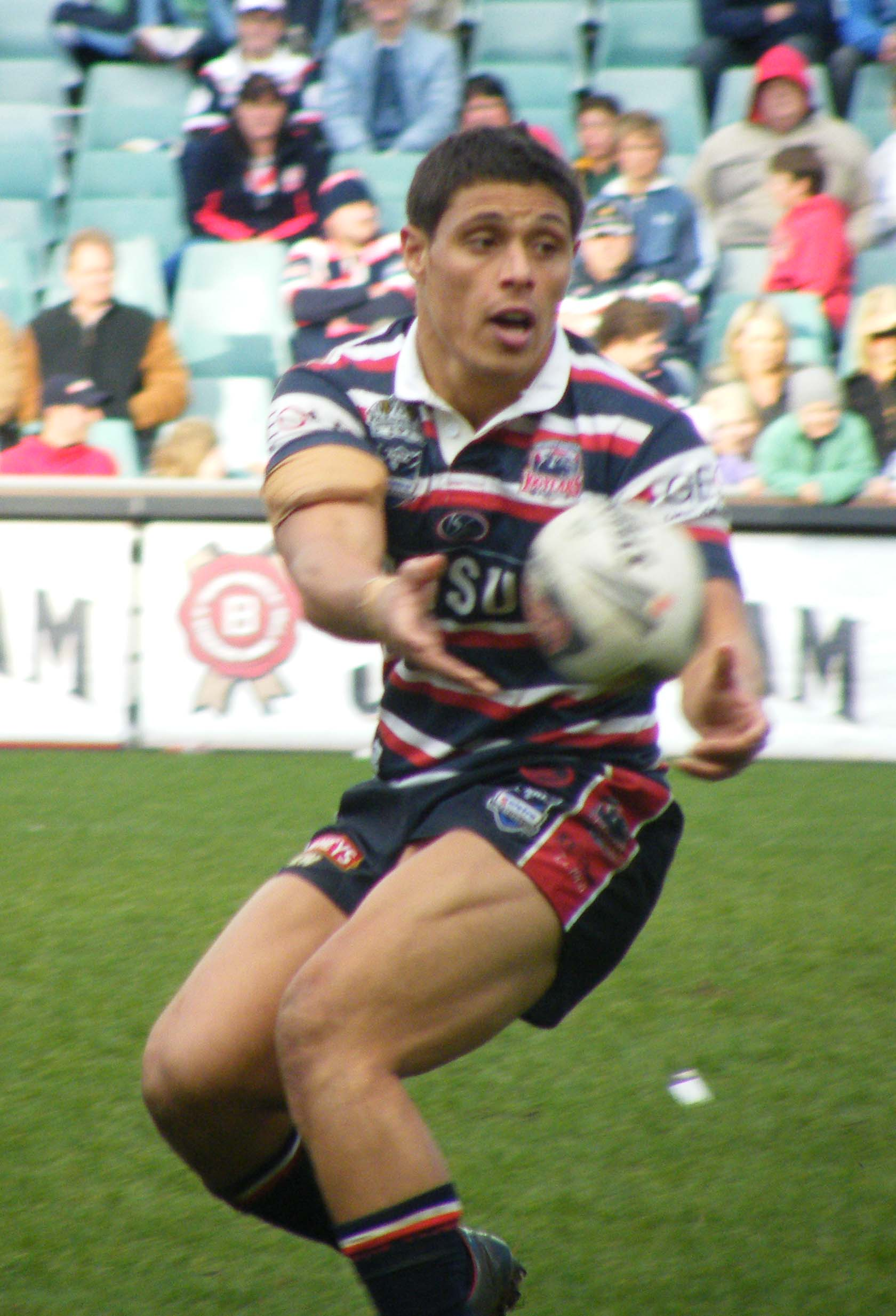 Sydney Roosters forward Anthony Tupou.